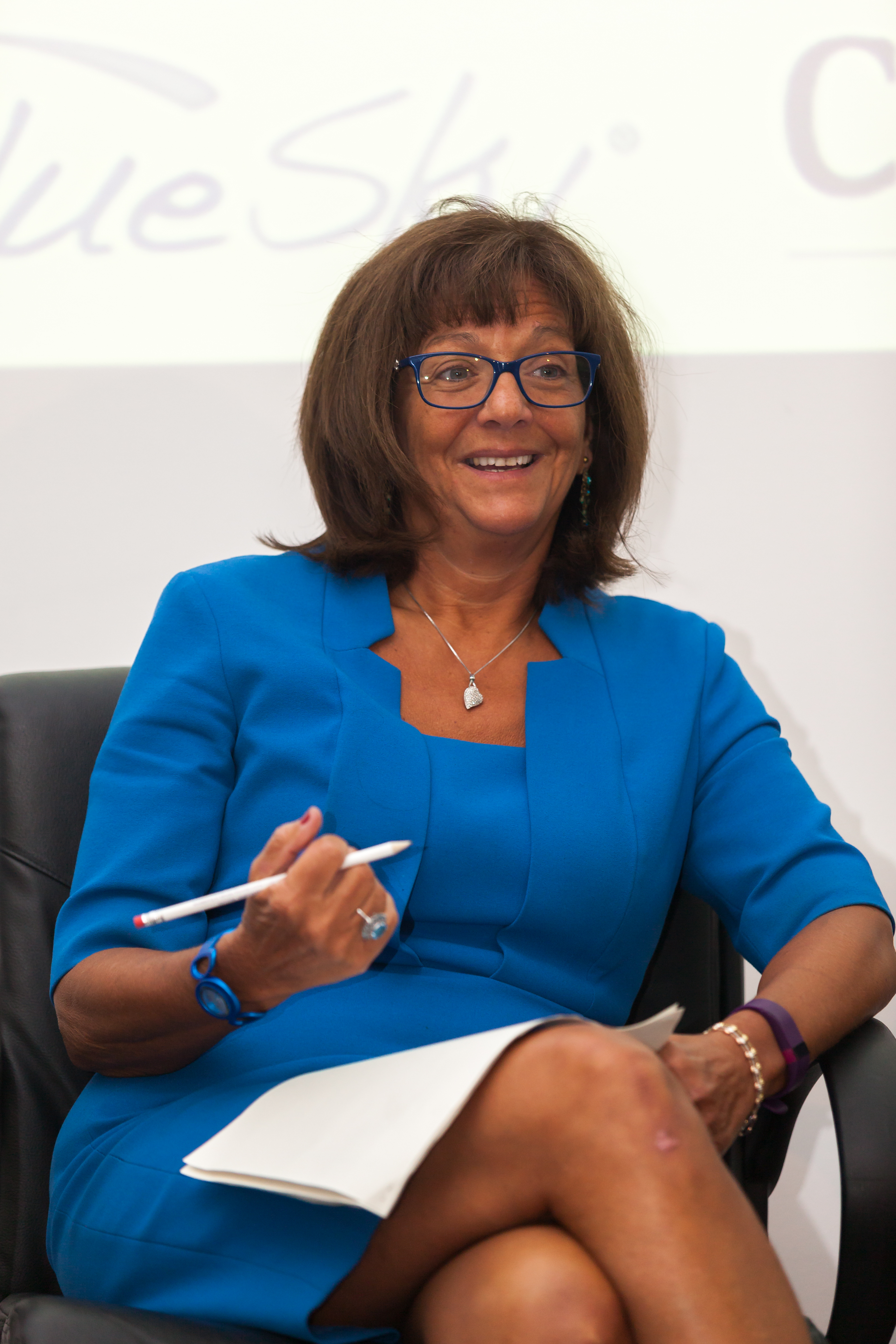 Baroness Ros Altmann at the PMI Spring Conference